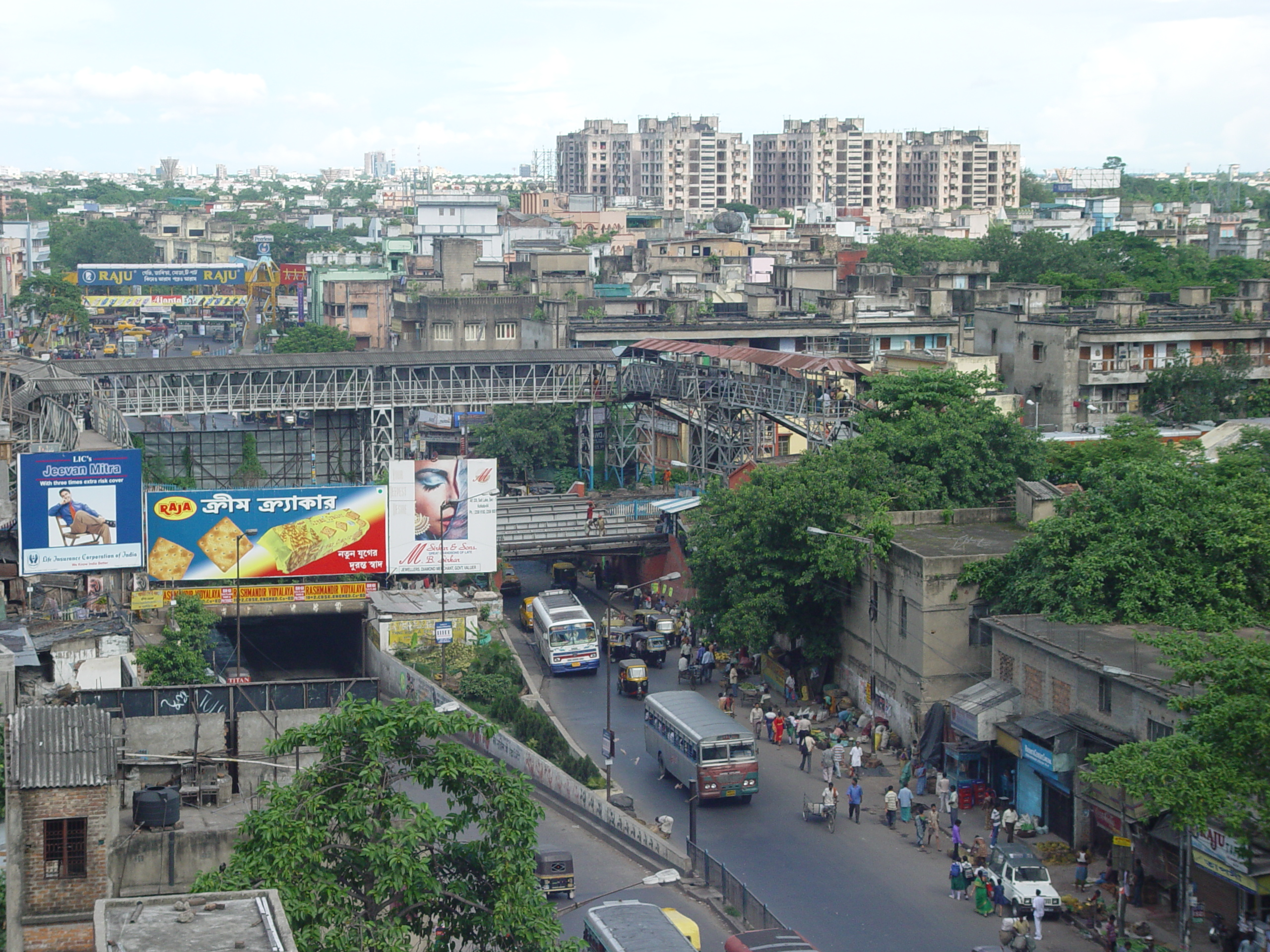 The Bidhan Nagar or Ultadanga railway station is one of the busiest place of Kolkata.